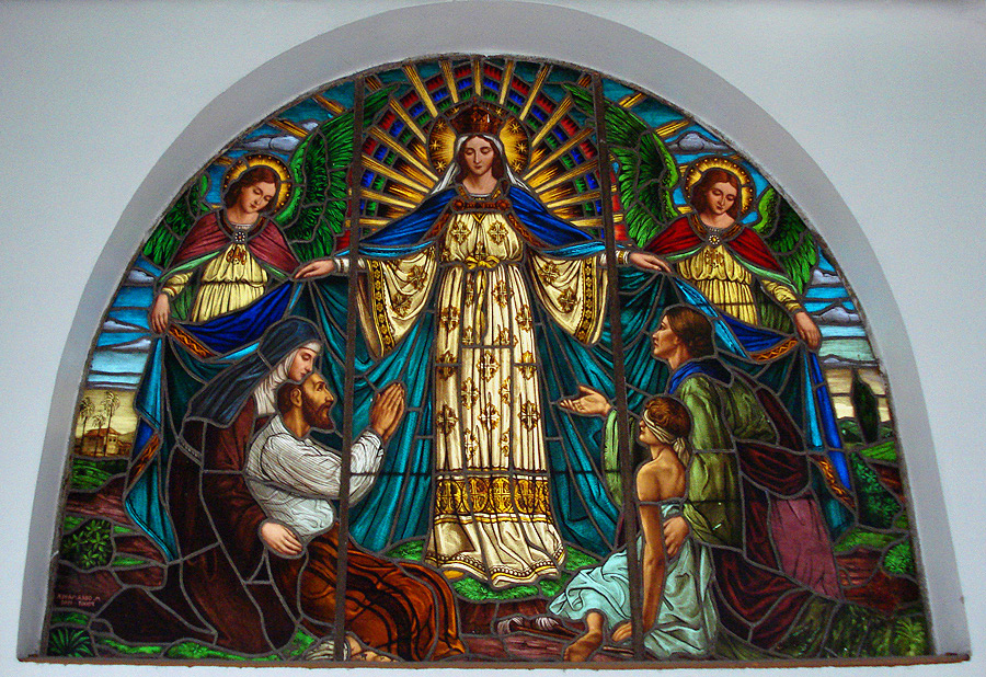 Our Lady of the Mercy, stained glass in Santa Casa de Misericórdia de Porto Alegre, Brazil